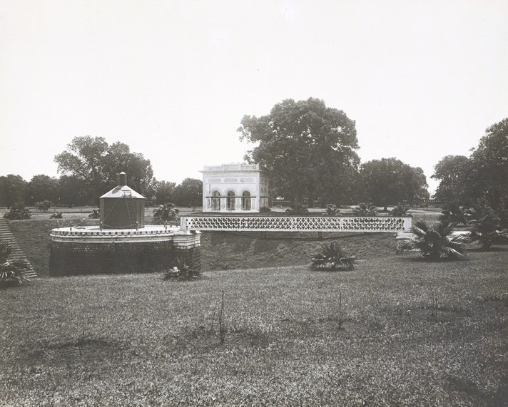 Photograph looking towards a water-tower in the Shahbagh Gardens in Dacca (Dhaka, now the capital of Bangladesh), taken by Fritz Kapp in 1904, part of an album of 30 prints from the Curzon Collection. Lord Curzon was Viceroy of India from 1899-1905. In February 1904, he toured Eastern Bengal and visited Dhaka on the 18th and 19th where he stayed at the Ahsan Manzil Palace. This album of gelatine-silver prints commemorates his Dhaka visit, though it is not a record of it and only presents us with general views. Kapp worked as a commercial photographer from the 1880s onwards and had studios in Chowringhee Road and Humayun Place in Calcutta. From the early 1900s he had a studio in Wise Ghat Road in Dhaka.